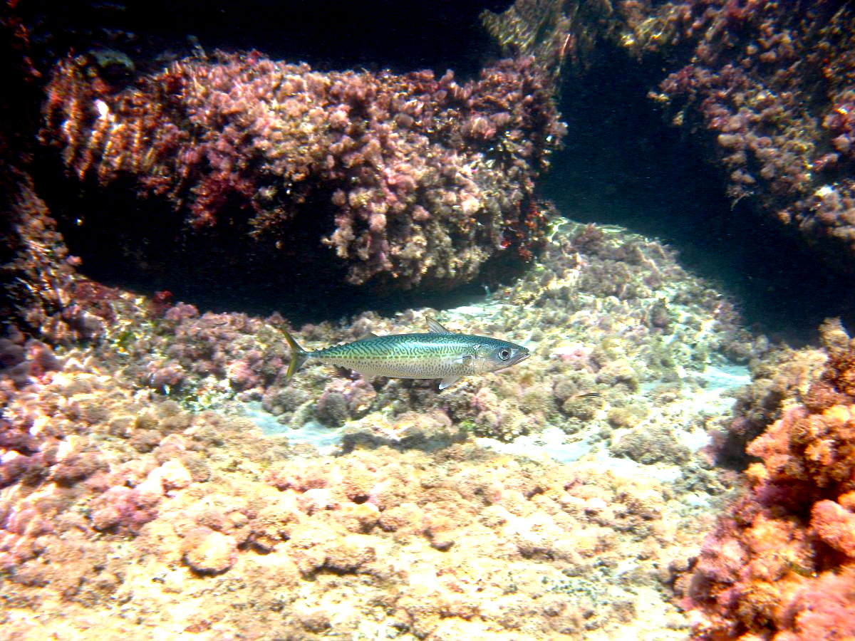 Scomber colias, specimen photographed in Liguria, Italy